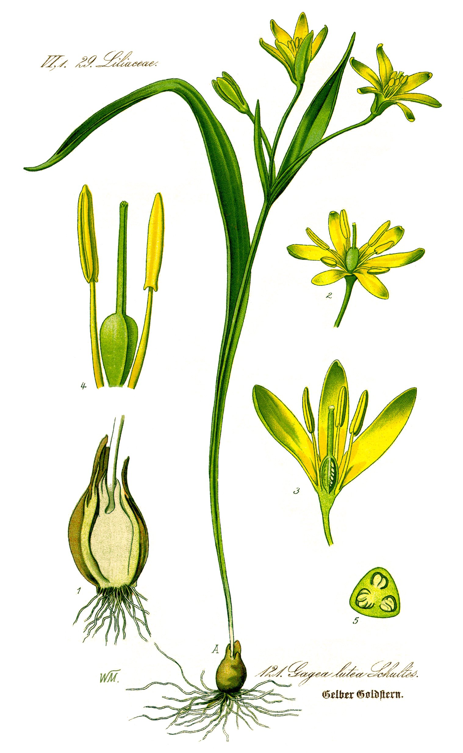 Name Gagea lutea Family Liliaceae